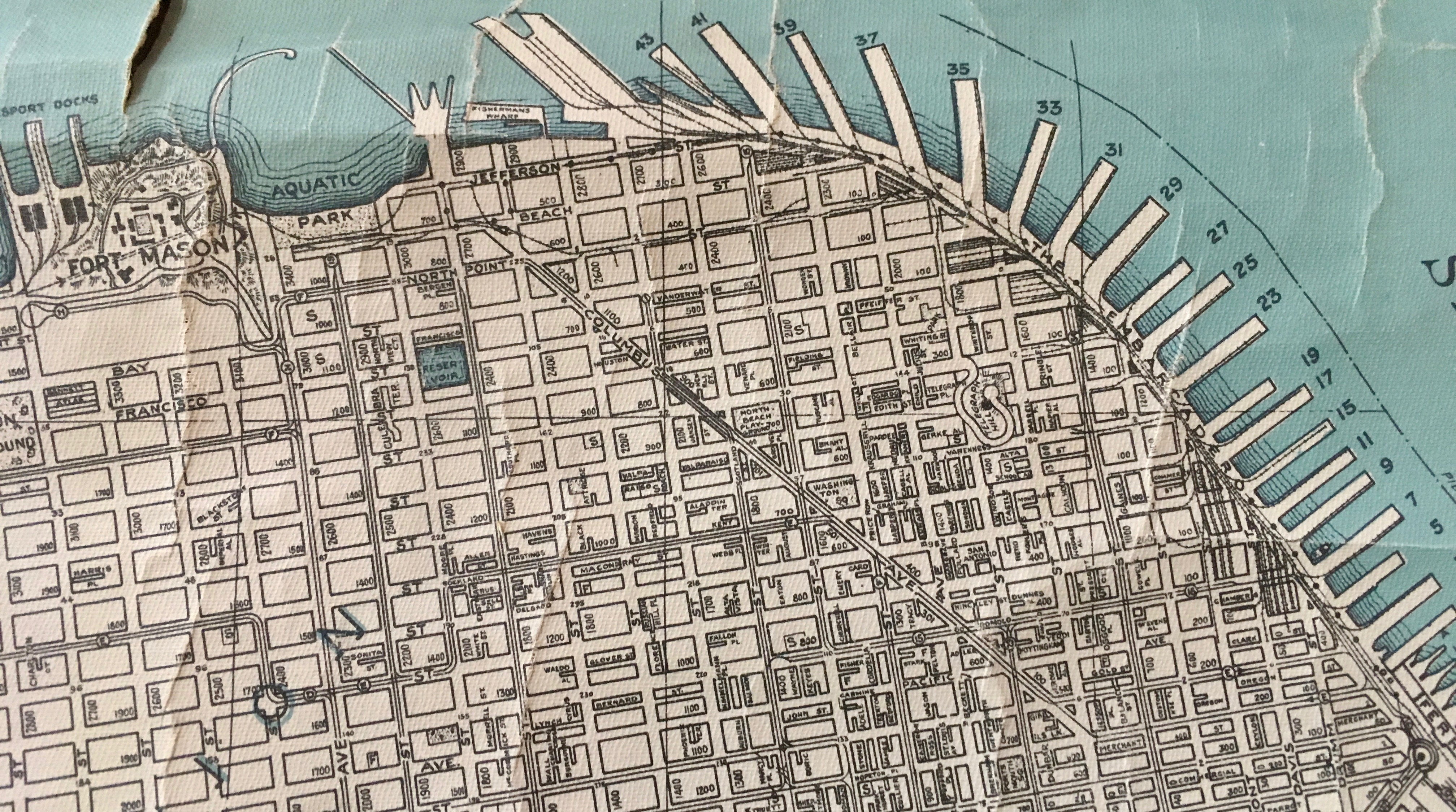 Rail lines north of Market Street